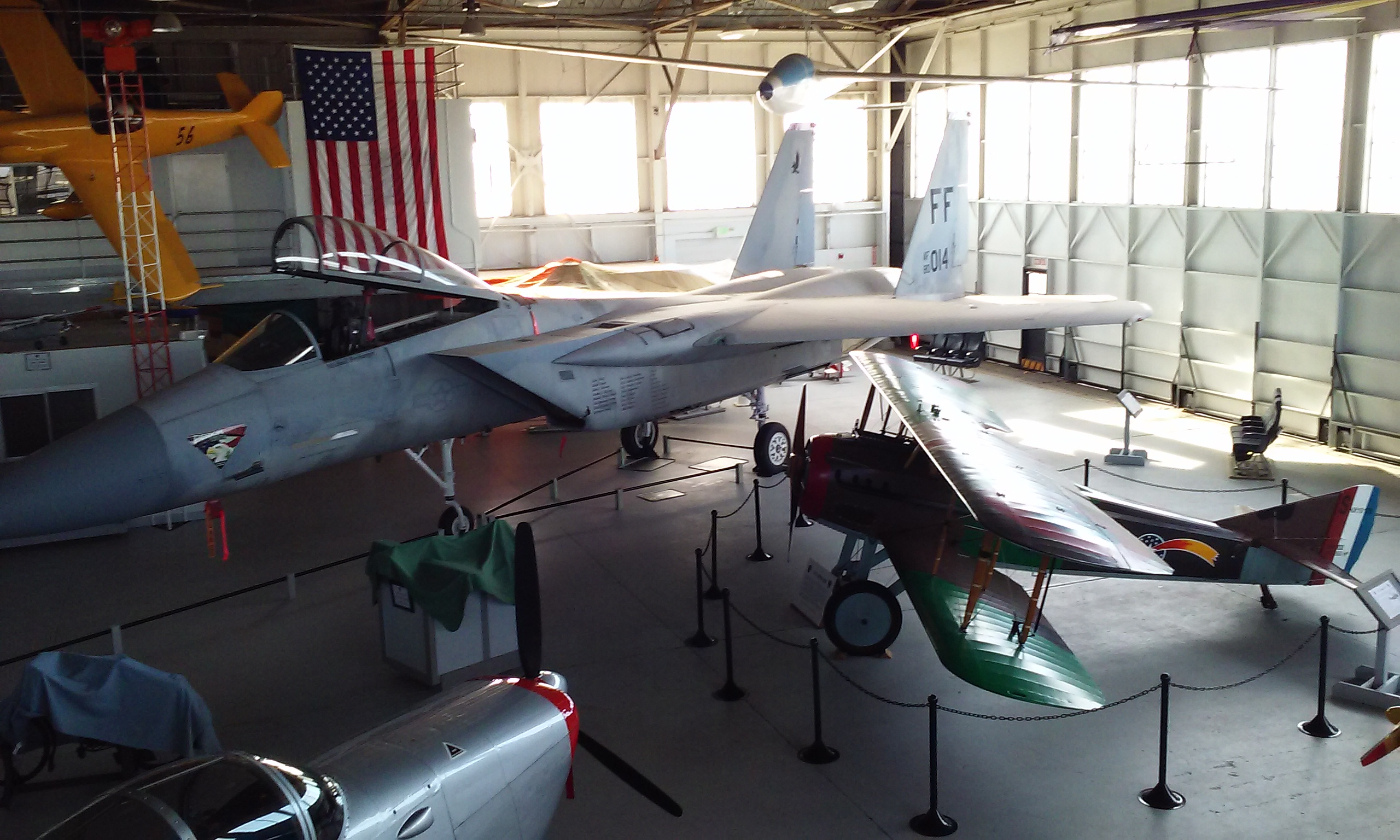 Interior view of the Chico Air Museum